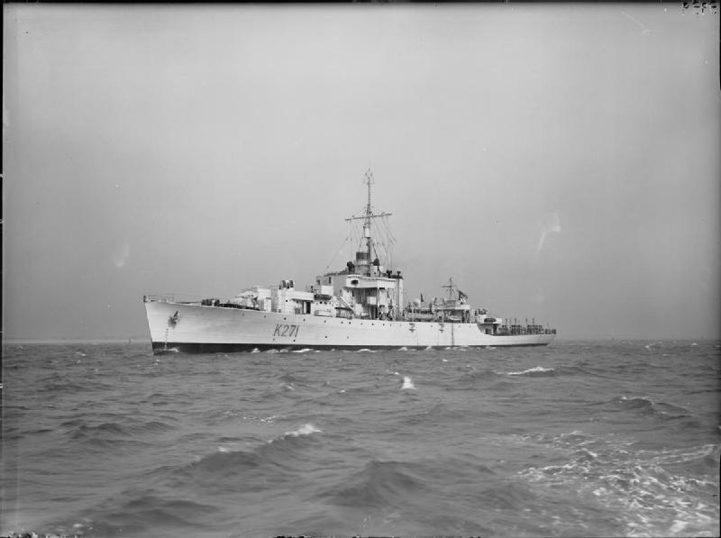 HMS PLYM underway